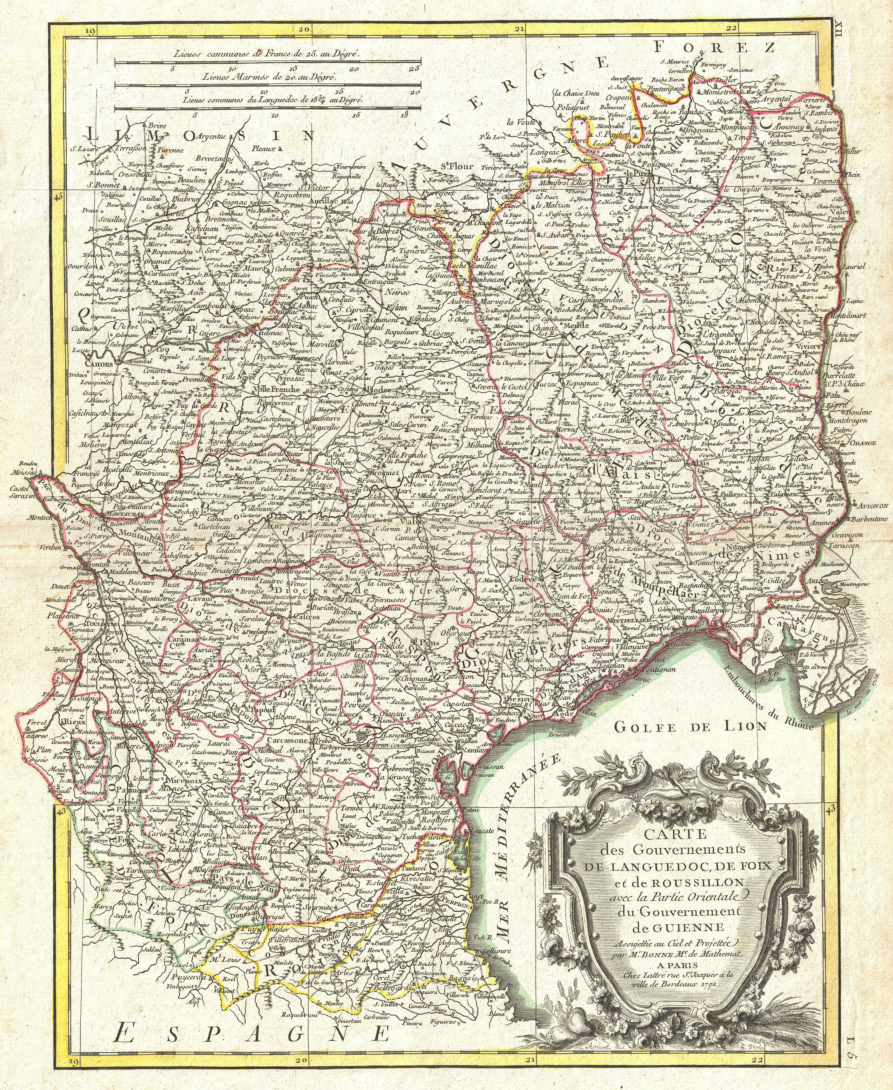 A beautiful example of Rigobert Bonne's decorative map of the French winemaking regions of Languedoc, de Foix and Roussillon. Covers the region in full from Auvergne to the Spain adn the Mediterranean. This region is the largest producer of wine in France. A large decorative title cartouche appears in the lower right quadrant. Drawn by R. Bonne in 1771 for issue as plate no. L 5 in Jean Lattre's 1776 issue of the Atlas Moderne .